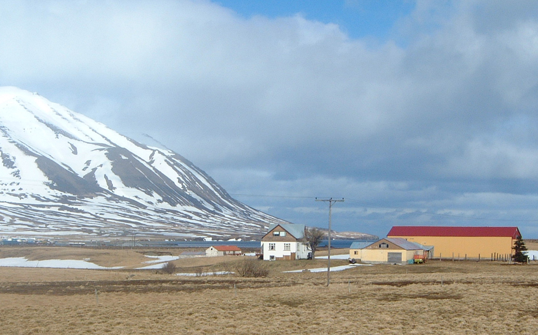 Hrísar, a farm in Svarfaðardalur, Dalvíkurbyggð, North Iceland